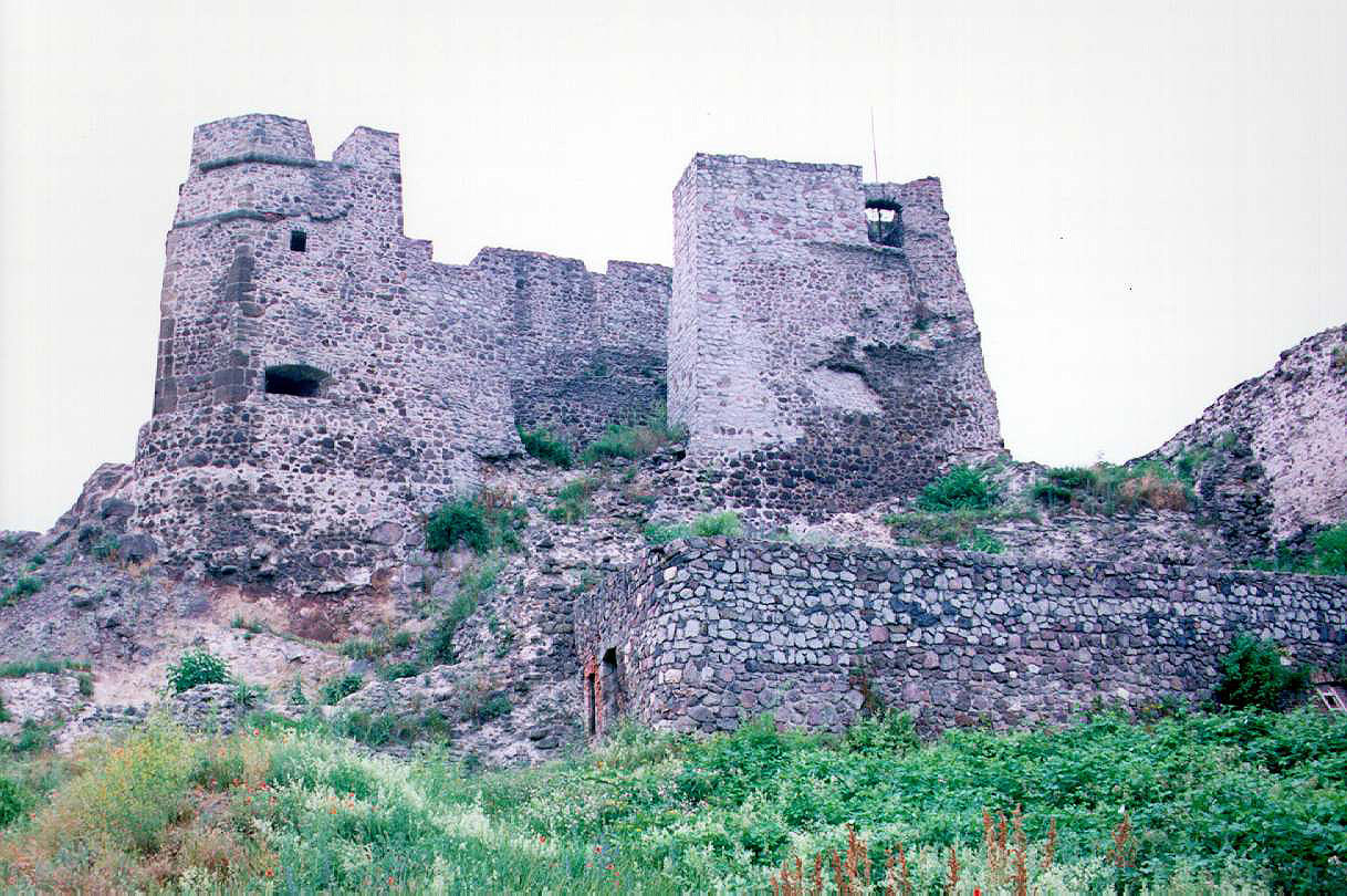 Slovakia, Levice Castle, 1998